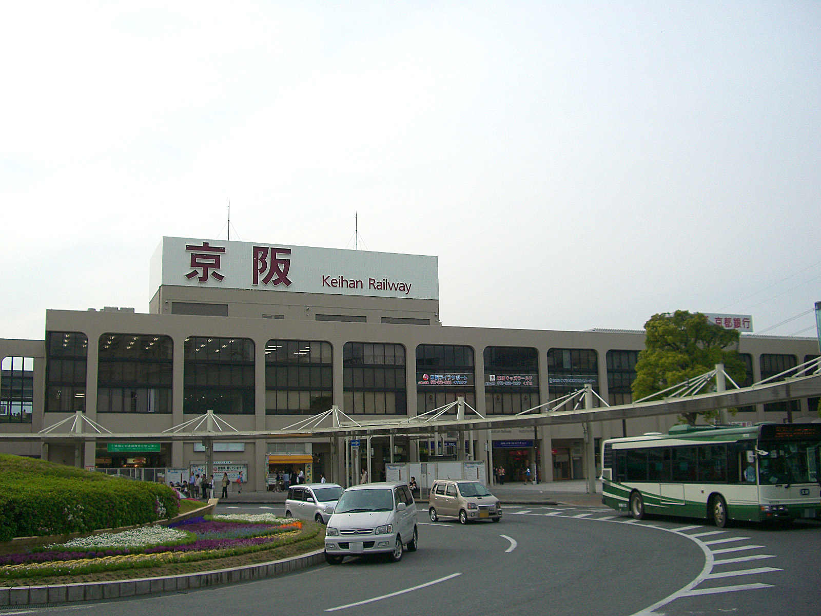 Keihan Eletric Railway Keihan Main Line Kuzuha Station Building North Gate